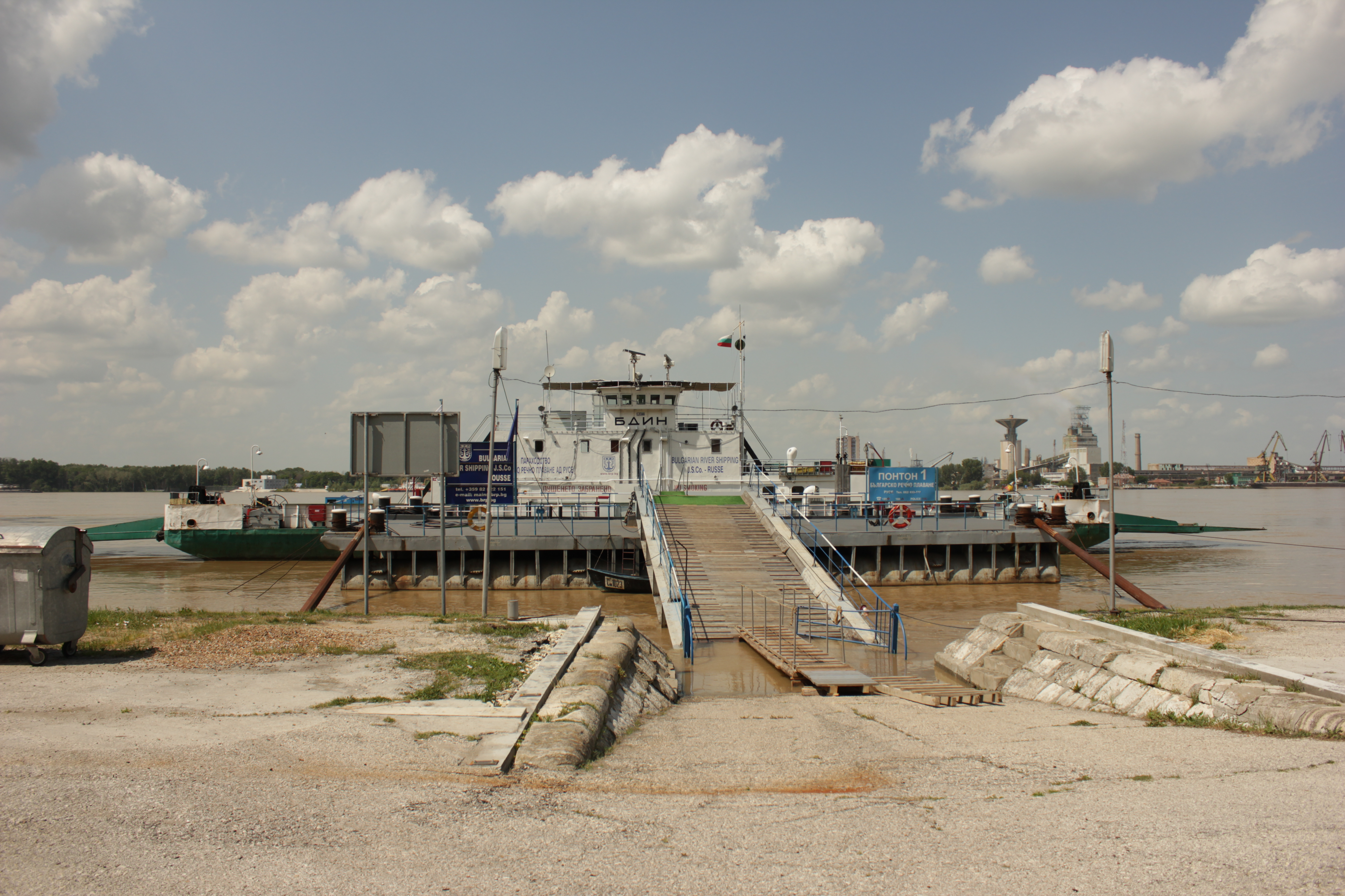 Nikopol-Turnu Magurele Ferry